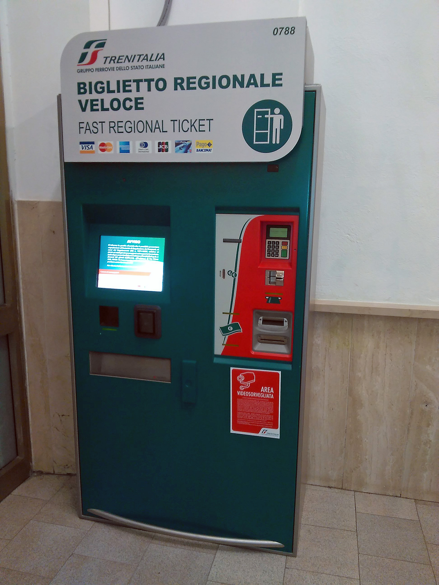 Ticket machine inside the Villamassargia-Domusnovas train station, in Sardinia, Italy